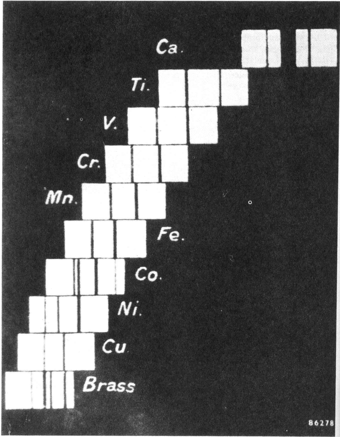 Photographic recording of characteristic x-ray emission lines of a range of elements from calcium to copper, and of zinc